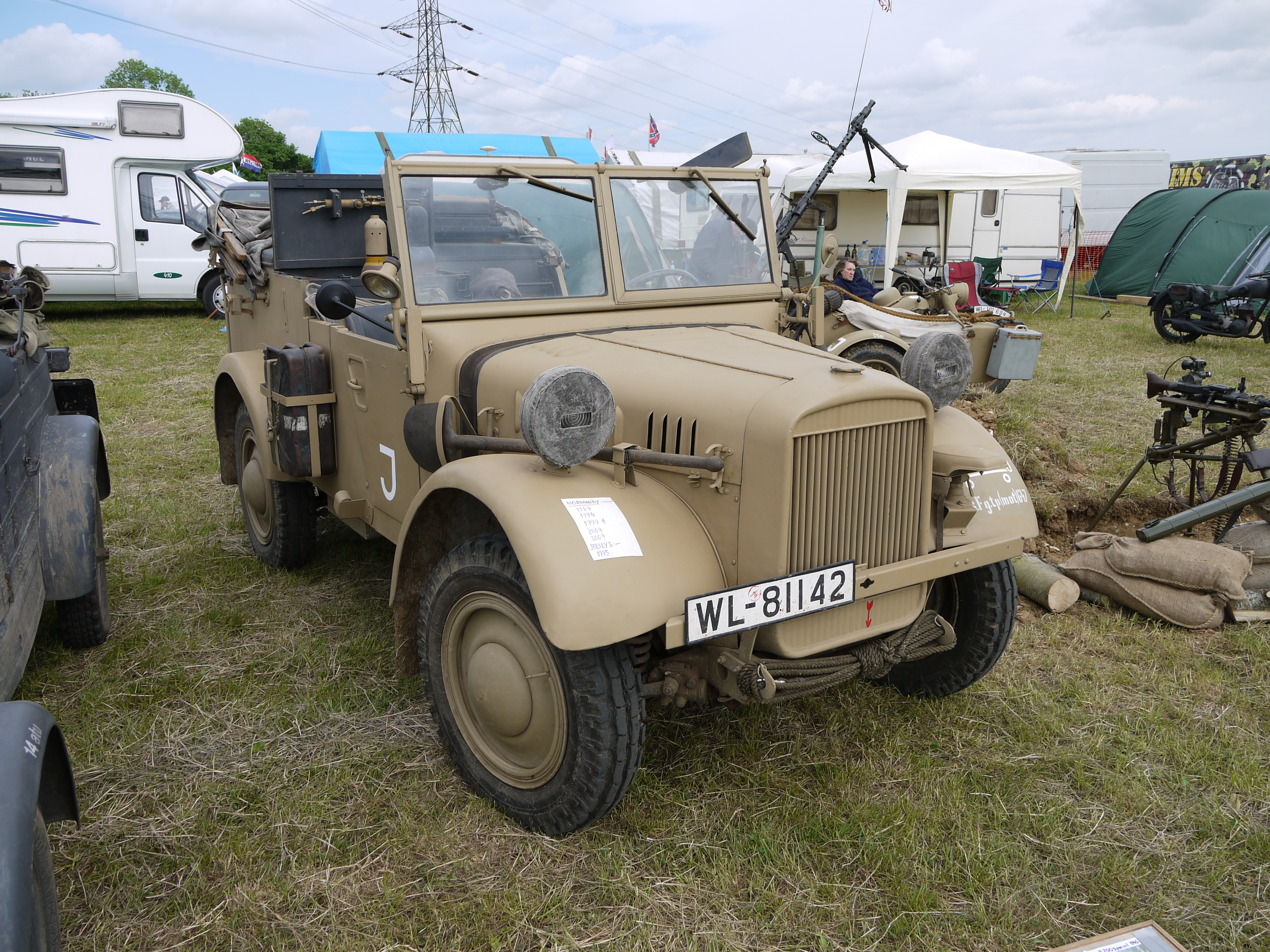 Photo of a Stoewer car R200_special model in german millitry markings.